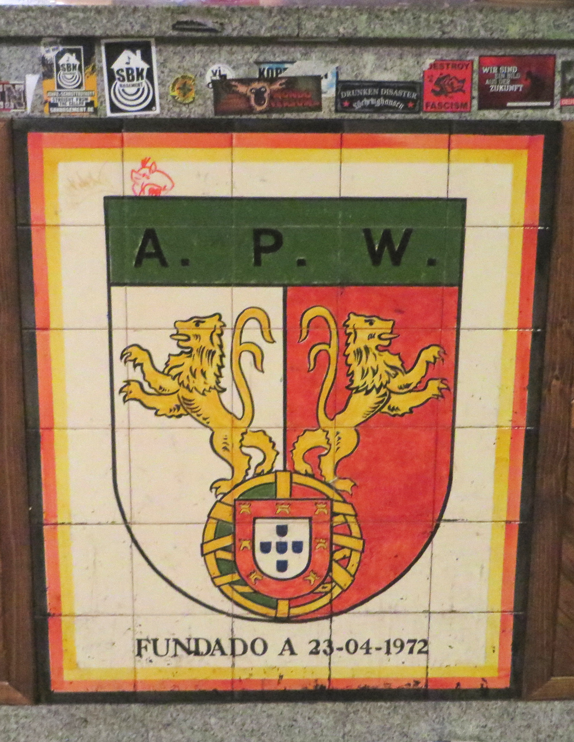 Counter of social center Trotz Allem (in spite of everything) in Witten with coat of arms of Portuguese culture club